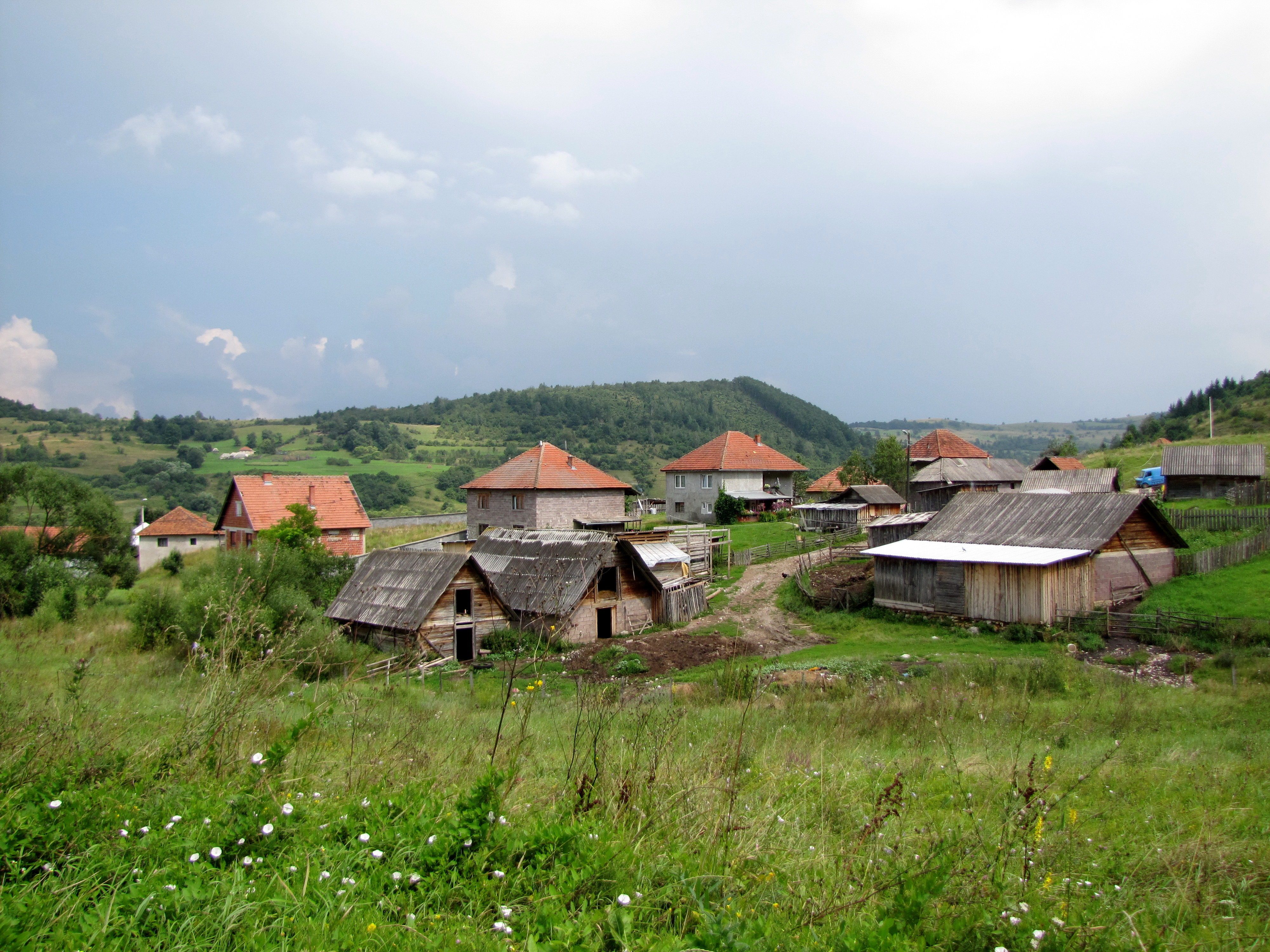 Godovo